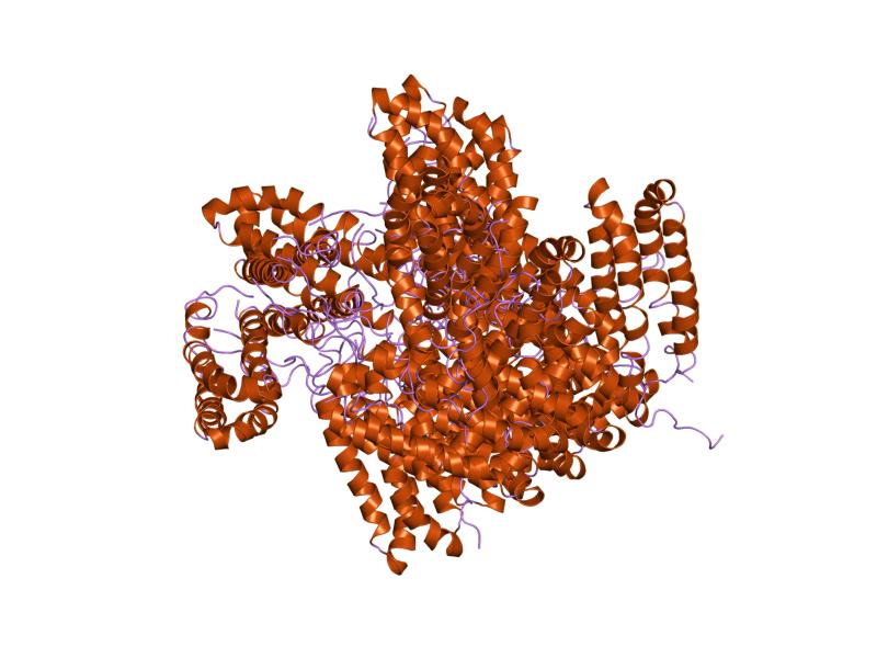 Cartoon representation of the molecular structure of protein registered with 1joy code.